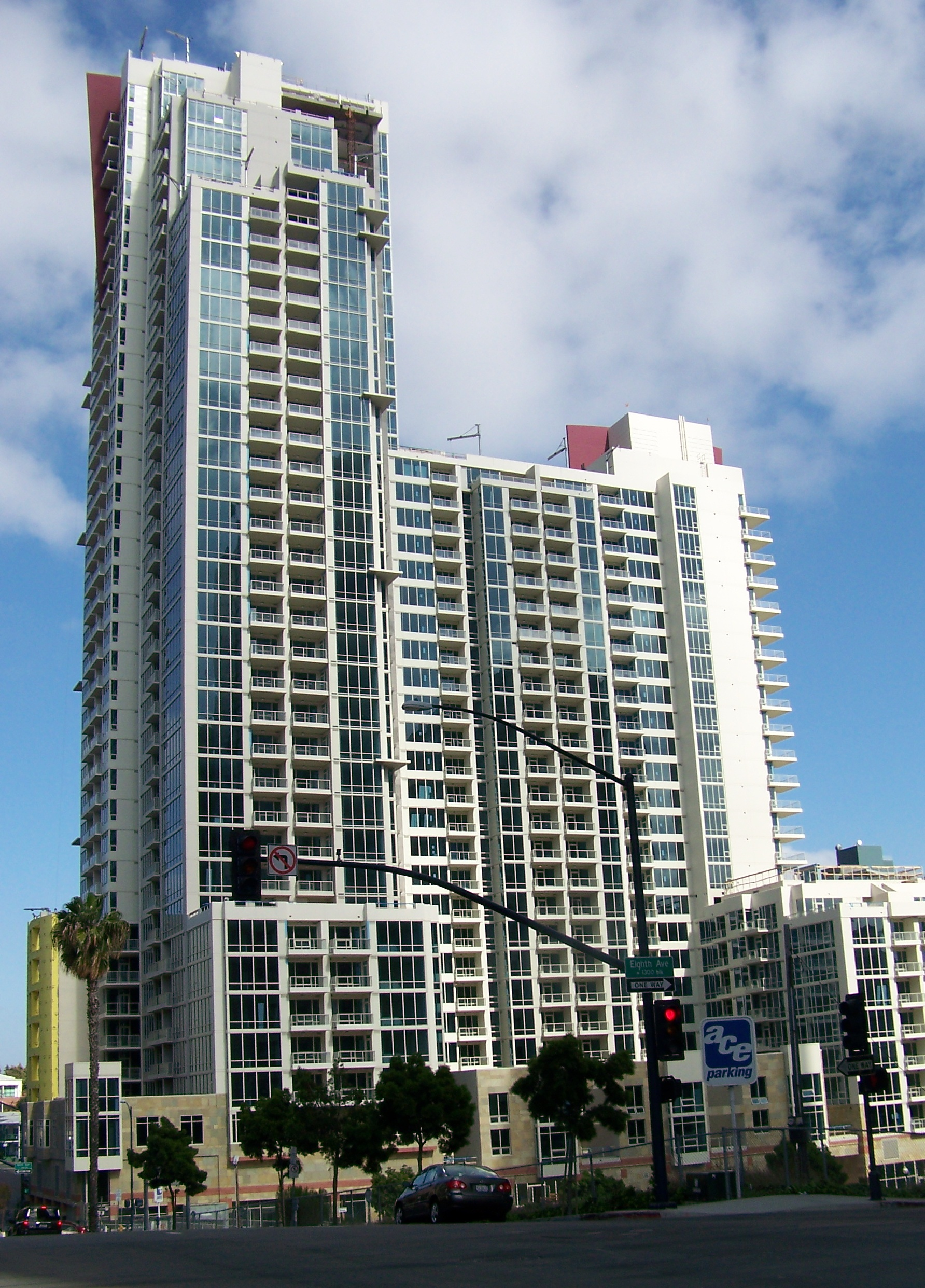 Vantage Pointe Condominium skyscraper in San Diego, California. Construction was completed in 2008.